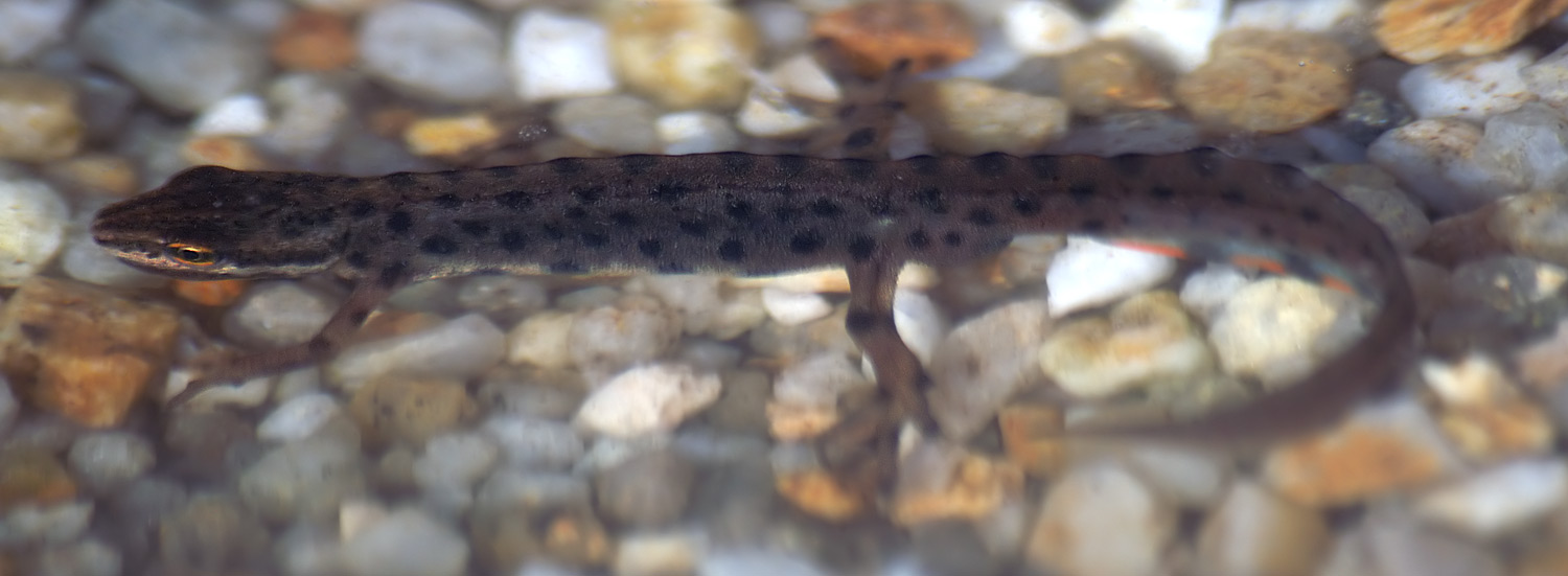 This image shows an about 5 cm large Smooth Newt in a garden pond.